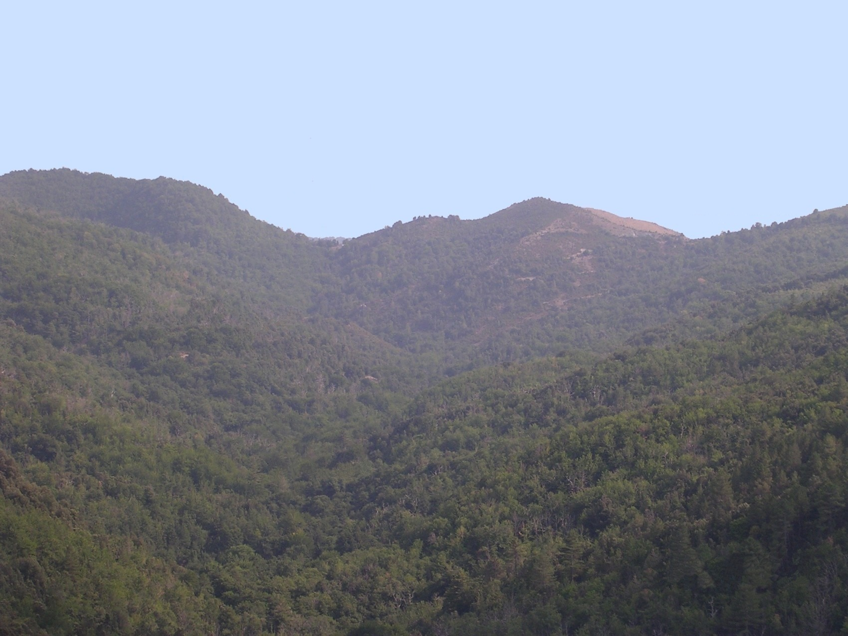 E schippiate, Chjatru, Bustanico, Corsica Corsu: E nostre Schippiate chi i furesteri chjamanu ancu scribbiata